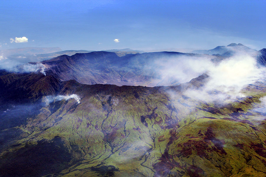 Aerial view of the caldera of Mt Tambora at the island of Sumbawa, Indonesia